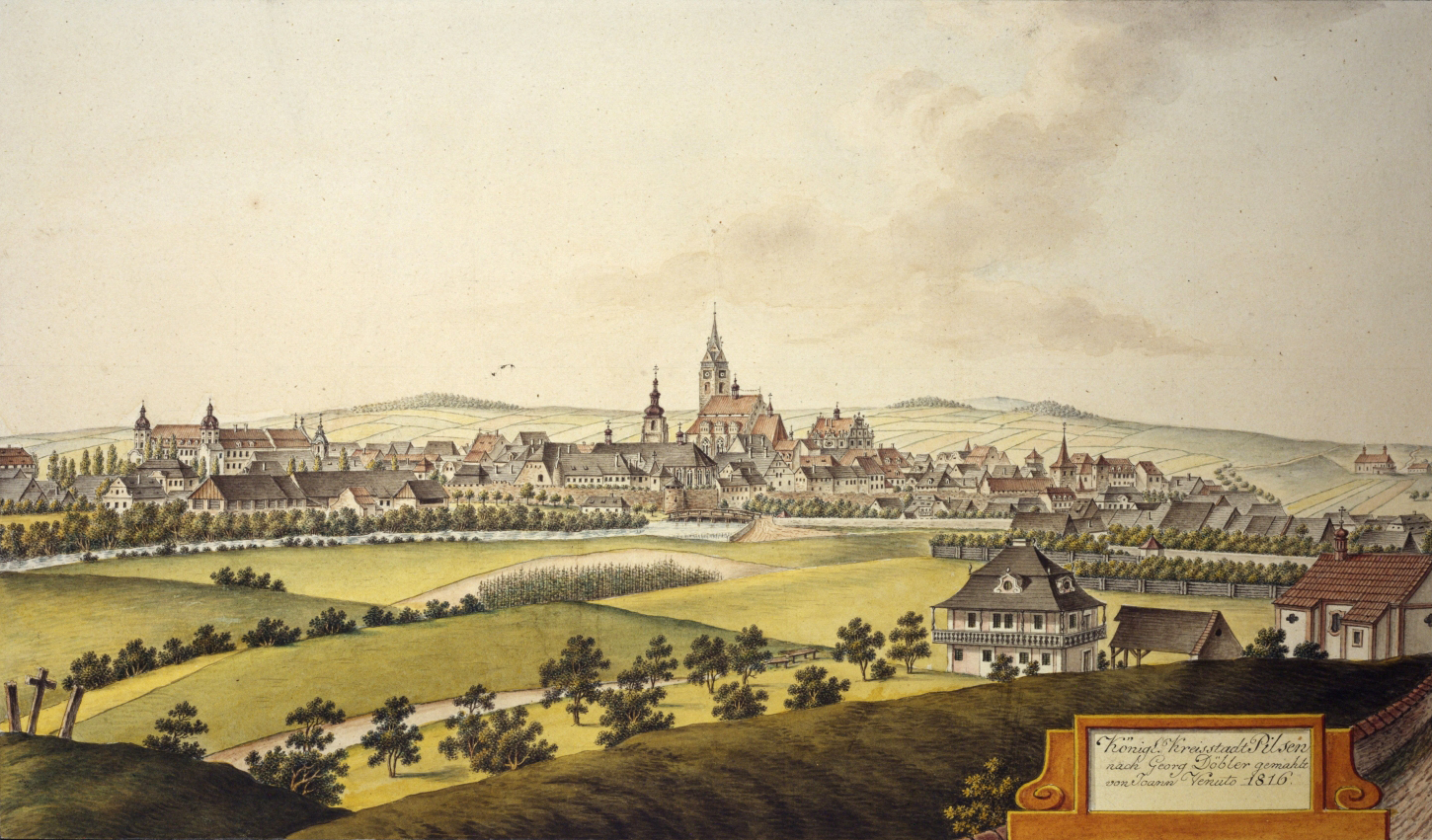 Königl. Kreisstadt Pilsen nach Georg Döbler gemahlt von Joann Venuto, 1816